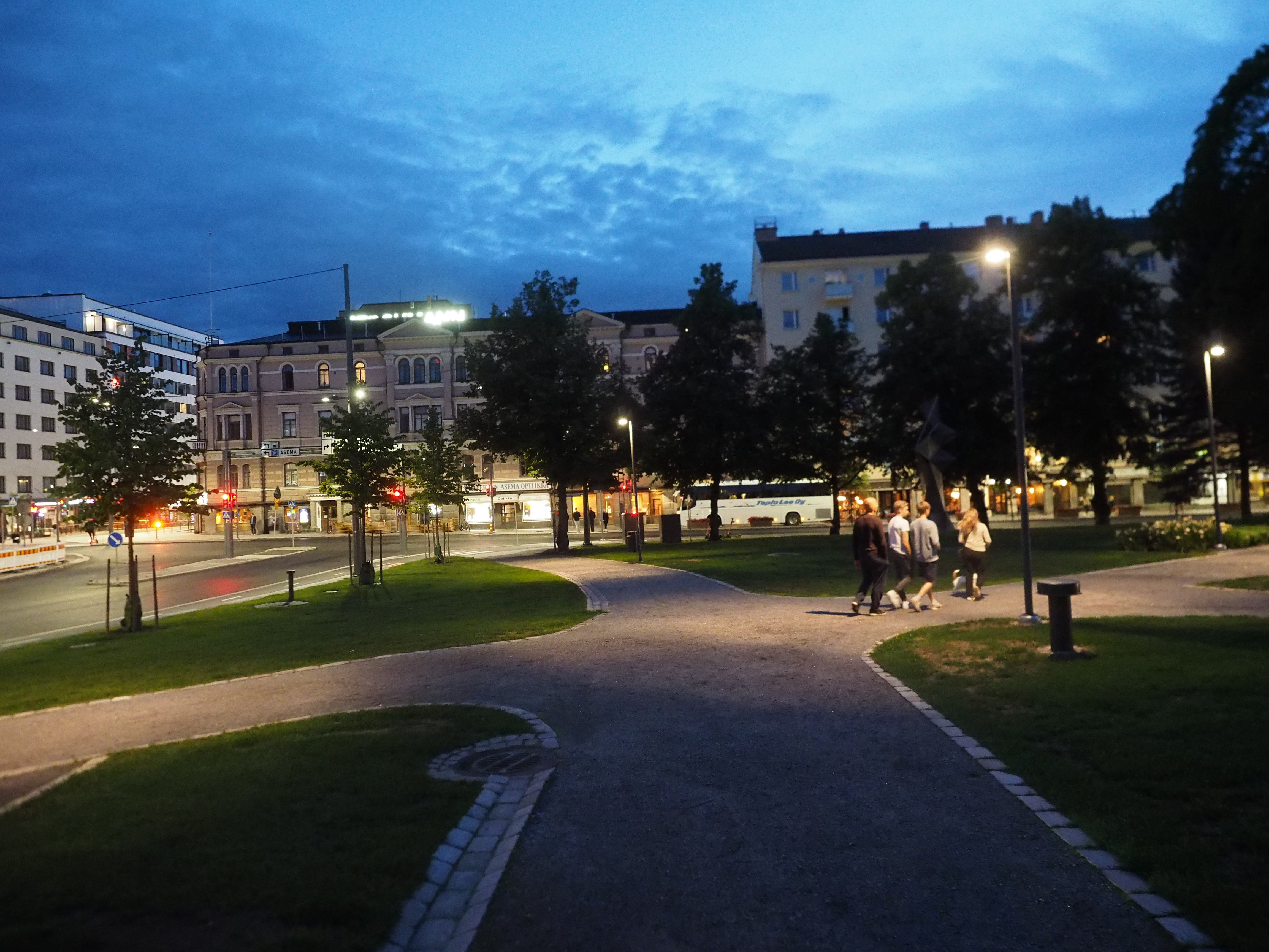 A view of central Tampere, Finland, near the railway station, at about 11:10 PM (local time). Overnight trains from Helsinki to Kolari stop at Tampere for 40 minutes, giving enough time for a short walk in central Tampere.